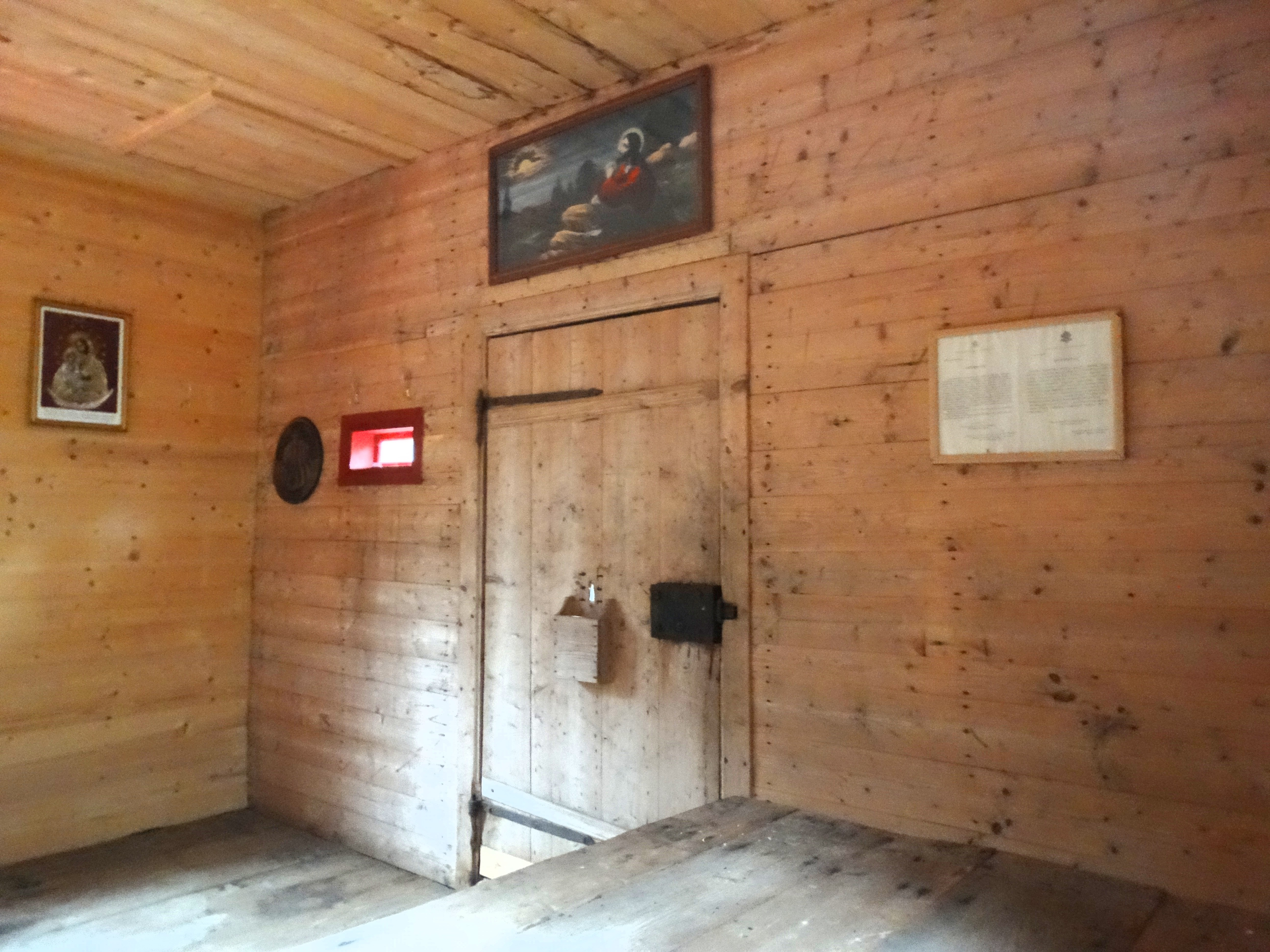 Sorai chapel, Jazdauskiškiai, Plungė district, Lithuania